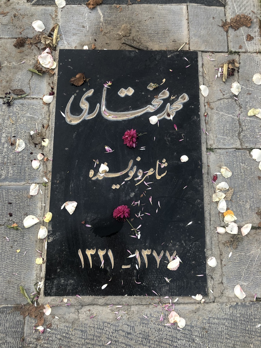 Emamzadeh Taher